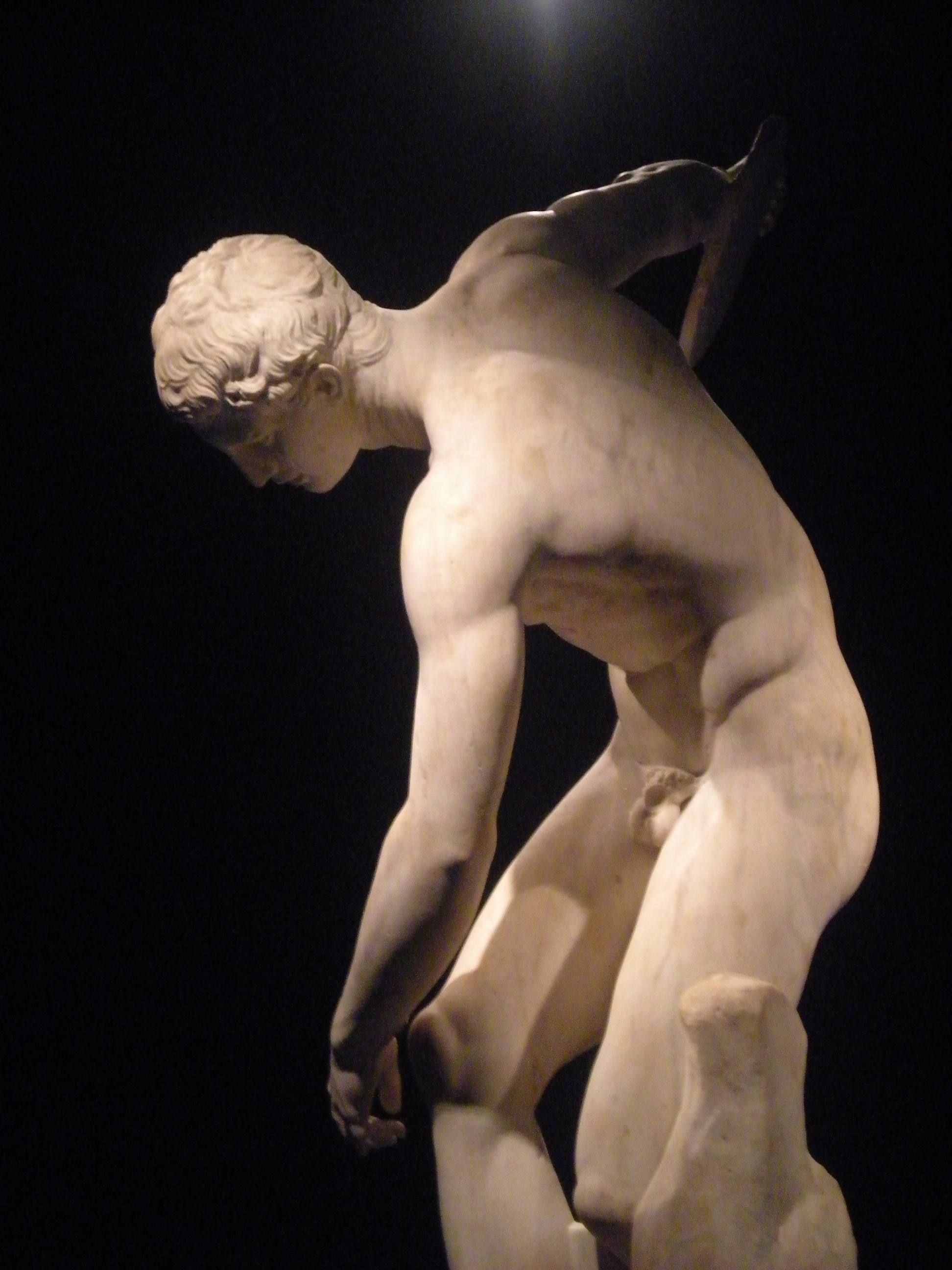 Discobolus. Marble, Roman copy after a bronze original of the 5th century BC. From the Villa Adriana near Tivoli, Italy.